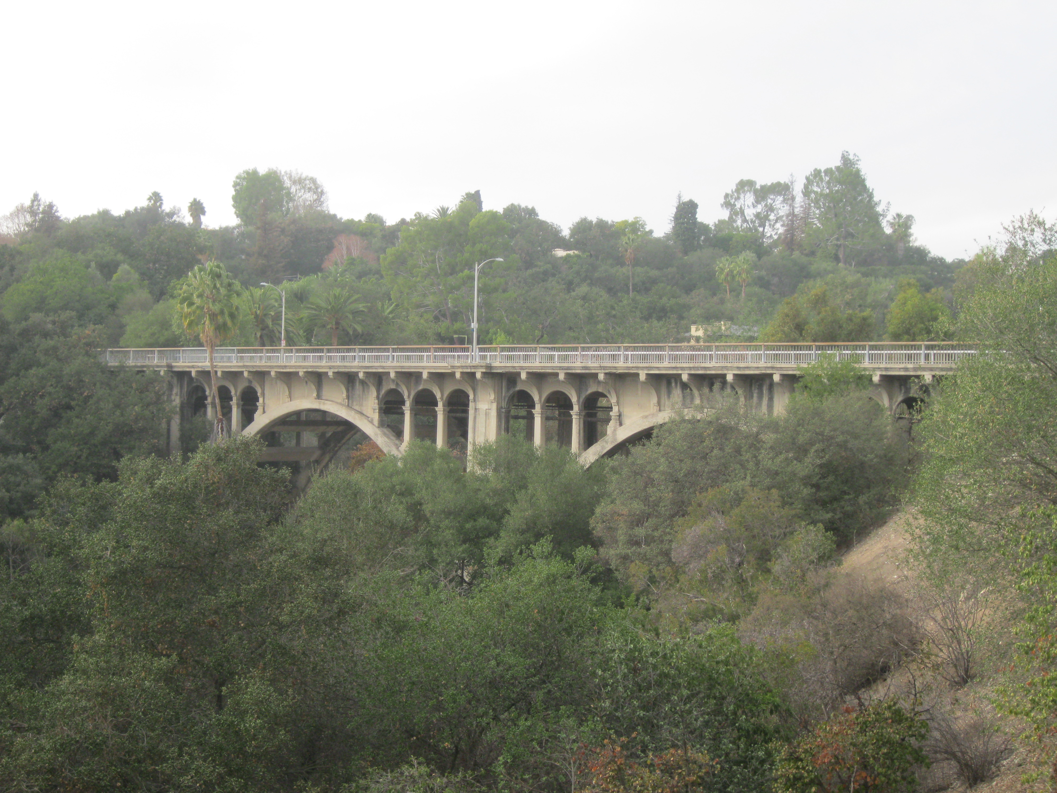 Side view of the La Loma Bridge in Pasadena, California. The bridge is listed on the National Register of Historic Places.